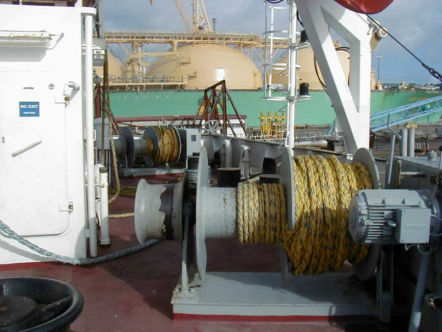 A mooring winch on the Chassiron, divided in two parts (traction and storage).